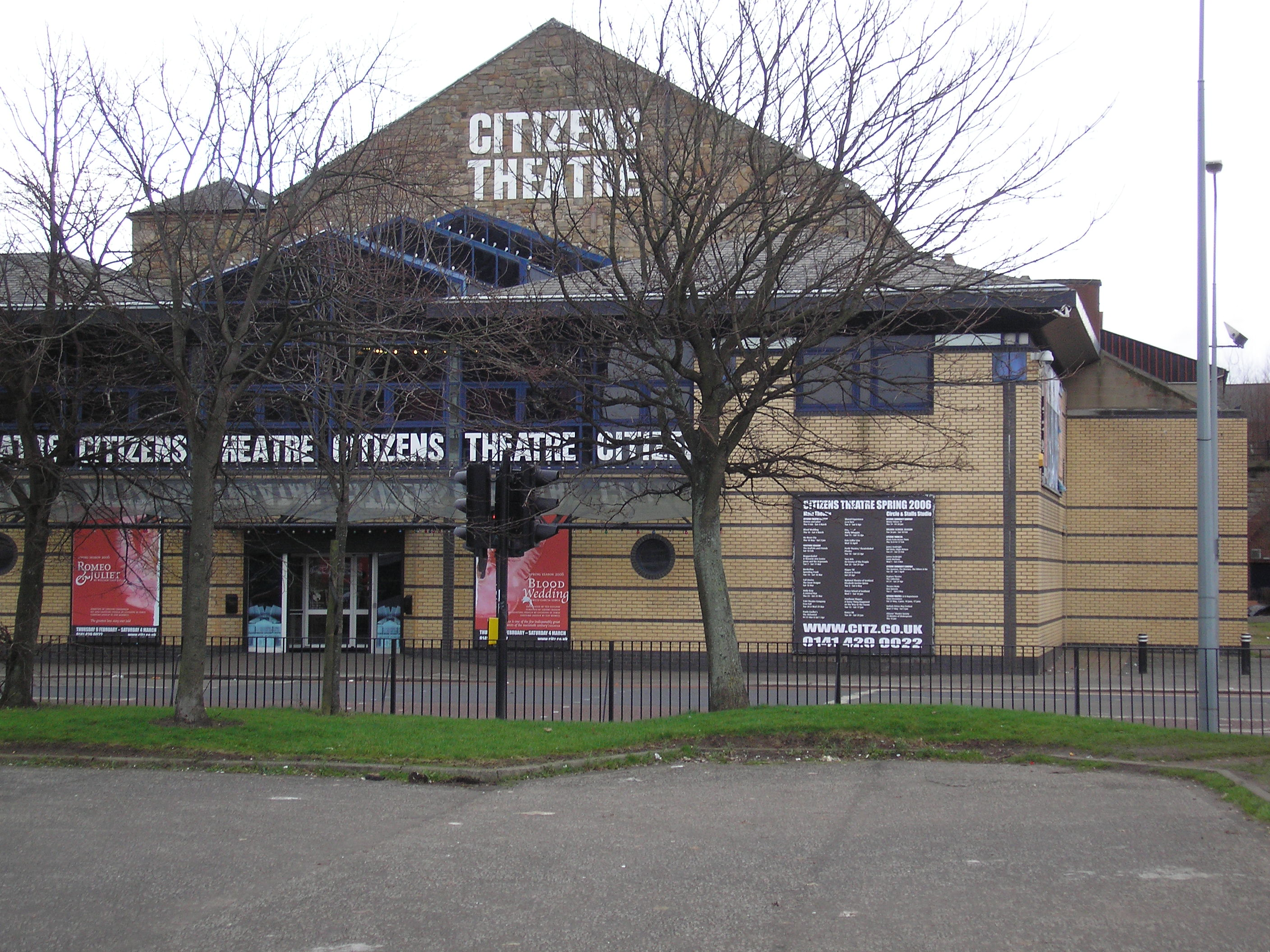 Front view of Glasgow's Citizens Theatre in the Gorbals district.